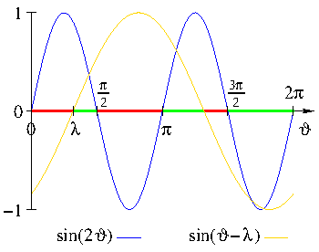 Possible inclinations ϑ of a heavy, oblate, symmetric top rotating about a vertical axis are marked in green. The angle λ is between the center of mass, the reference point and the figureaxis.